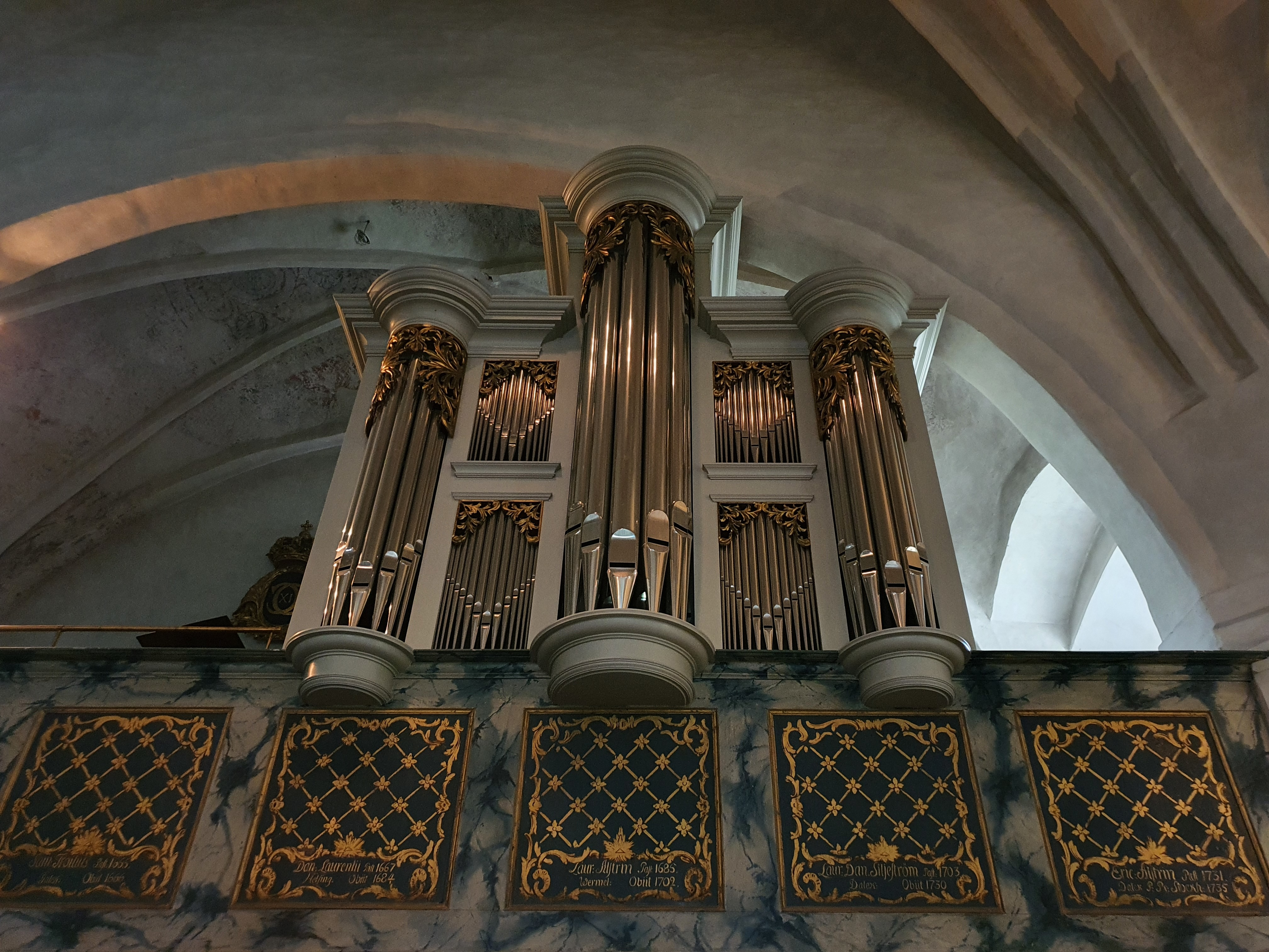 The smaller organ in Leksand Church.